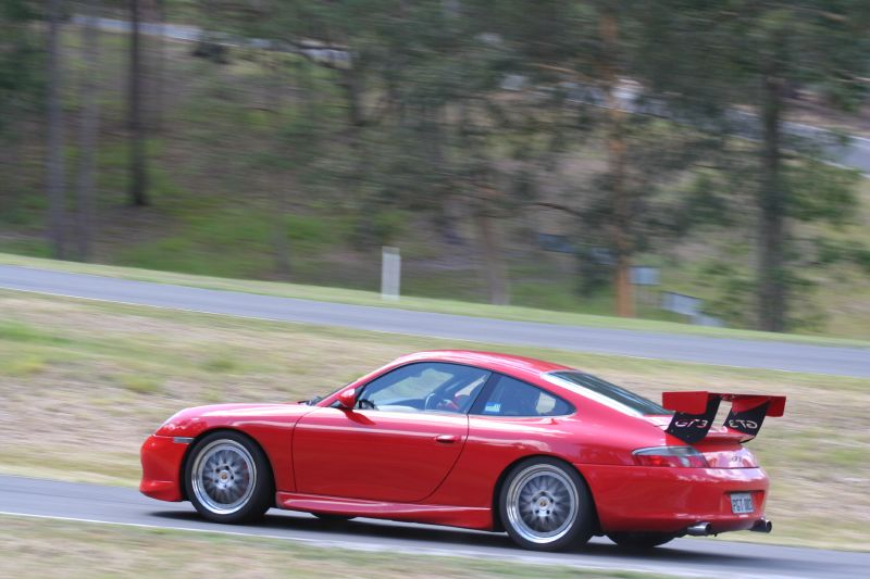 Porsche 996 GT3 (Cup) coupé at the Mount Cotton Hill Climb